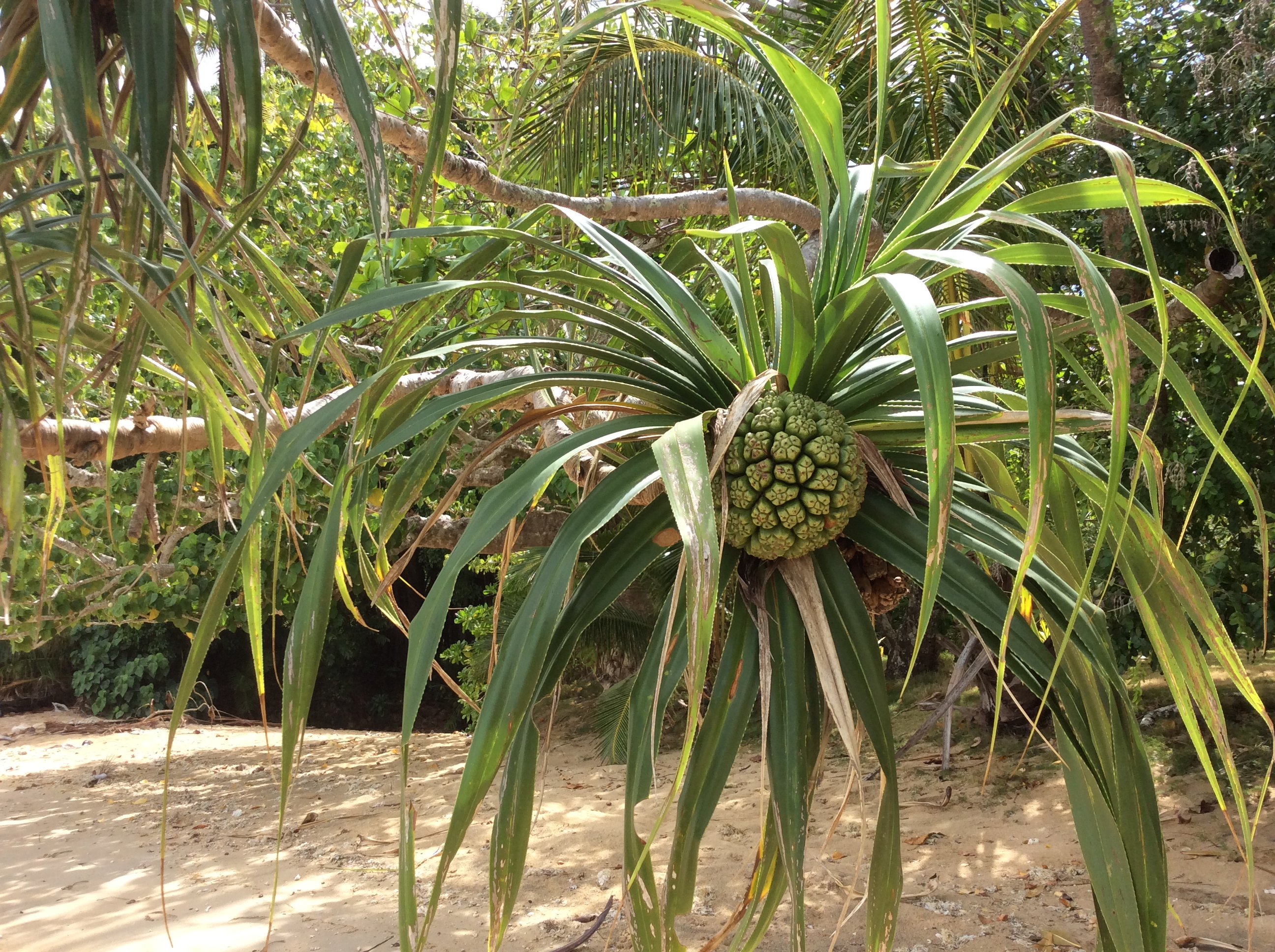 Fruit of Pandanus tectorius, Lawaki on Beqa Island, Fiji